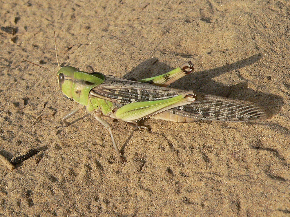 Female Locusta migratoria migratorioides near Aeterba, Red Sea coast, Sudan.